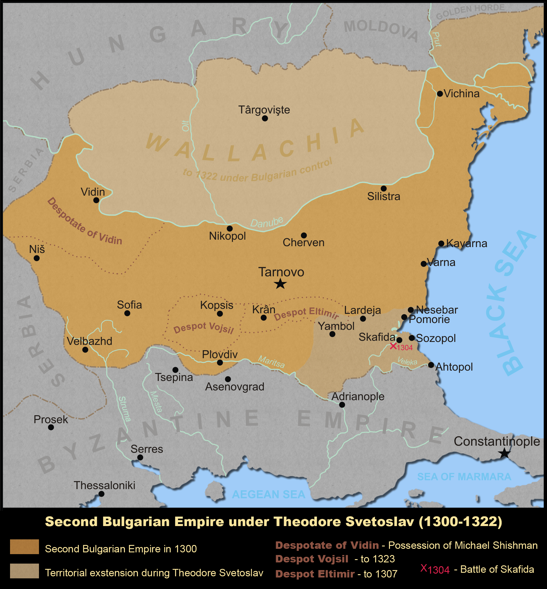 Second Bulgarian Empire under Theodore Svetoslav (1300-1322)